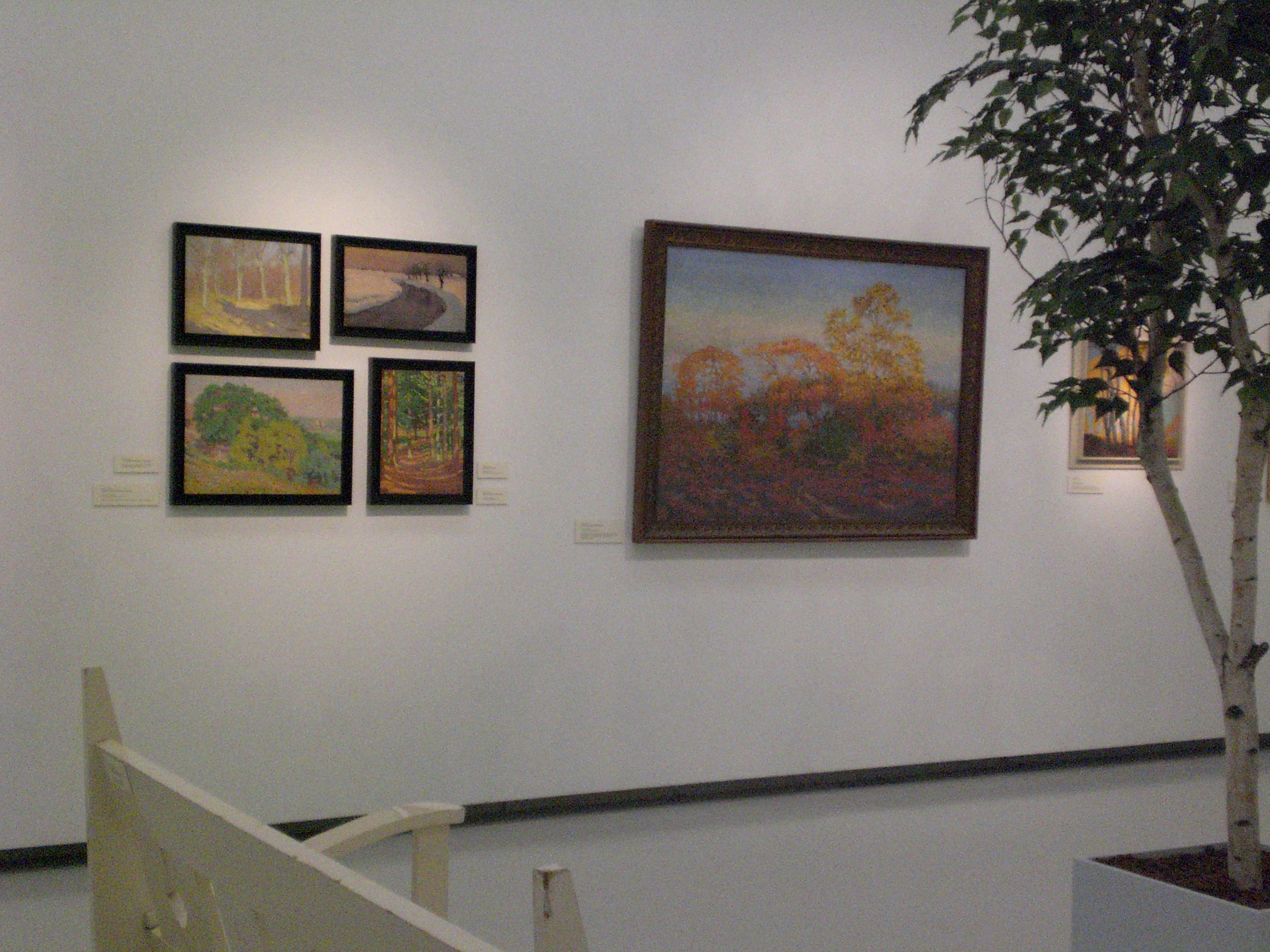 Exposition of work of Eugène Lücker, Museum Het Valkhof Nijmegen Exposition of work of Eugène Lücker, Museum Het Valkhof Nijmegen